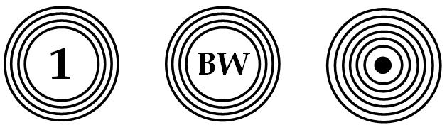 Samples of postmarks used to cancel the first Polish postage stamp (1860) - drawing